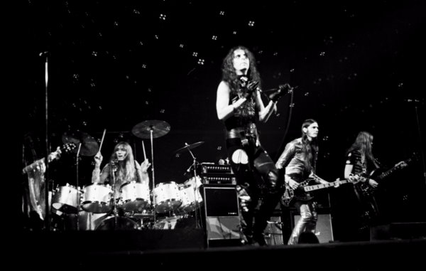 Alice Cooper Killer Tour 1972